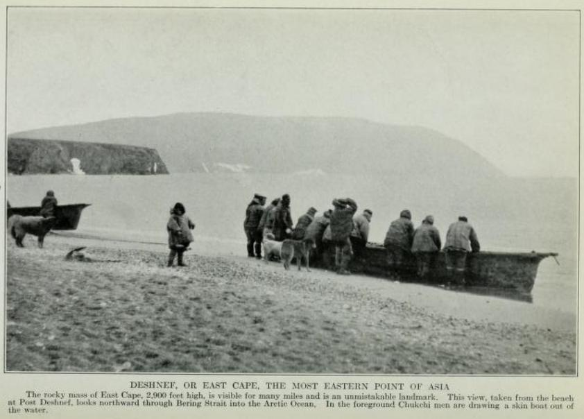 Chukchi men at Port Dezhnev bringing a umiak up on the beach; Cape Dezhnev headland in background.